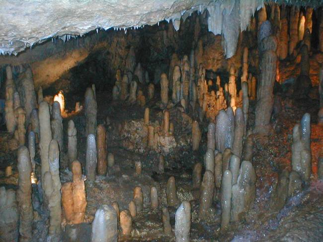 The limestone formations in Harrison's Cave, Barbados.